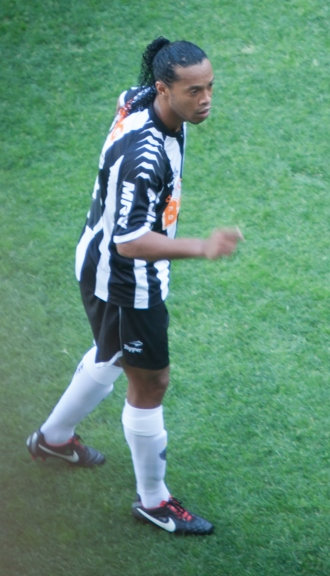 Ronaldinho playing for Atlético Mineiro in 2012.